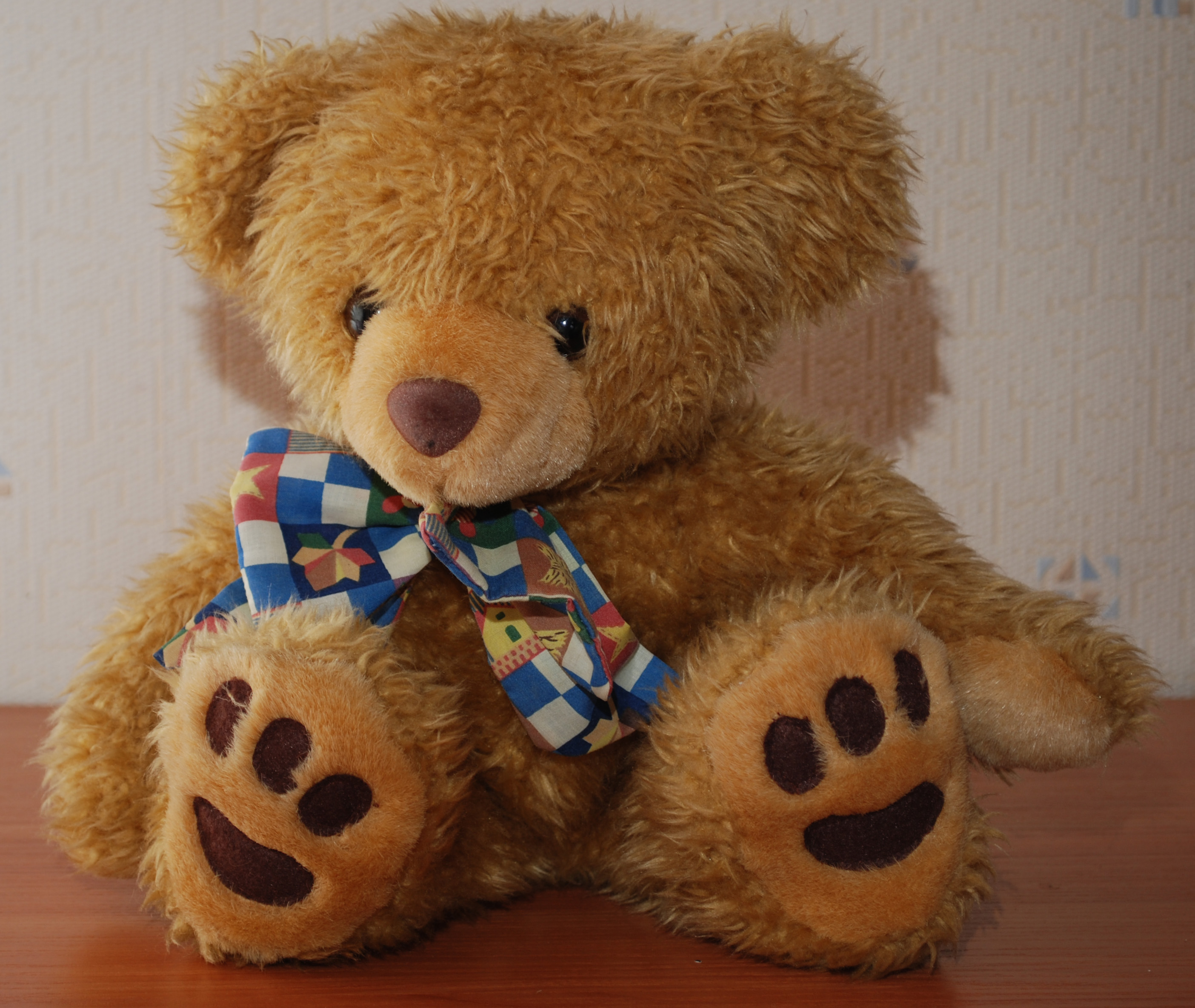 Experiments with direction of flesh light. Flesz pointed directly to the left wall.